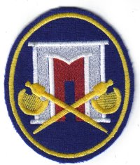 Kremlin Regiment ensign.